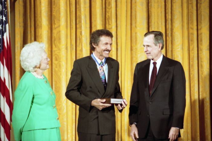 President George H. W. Bush and Mrs. Barbara Bush award the Presidential Medal of Freedom to NASCAR Driver Richard Petty.